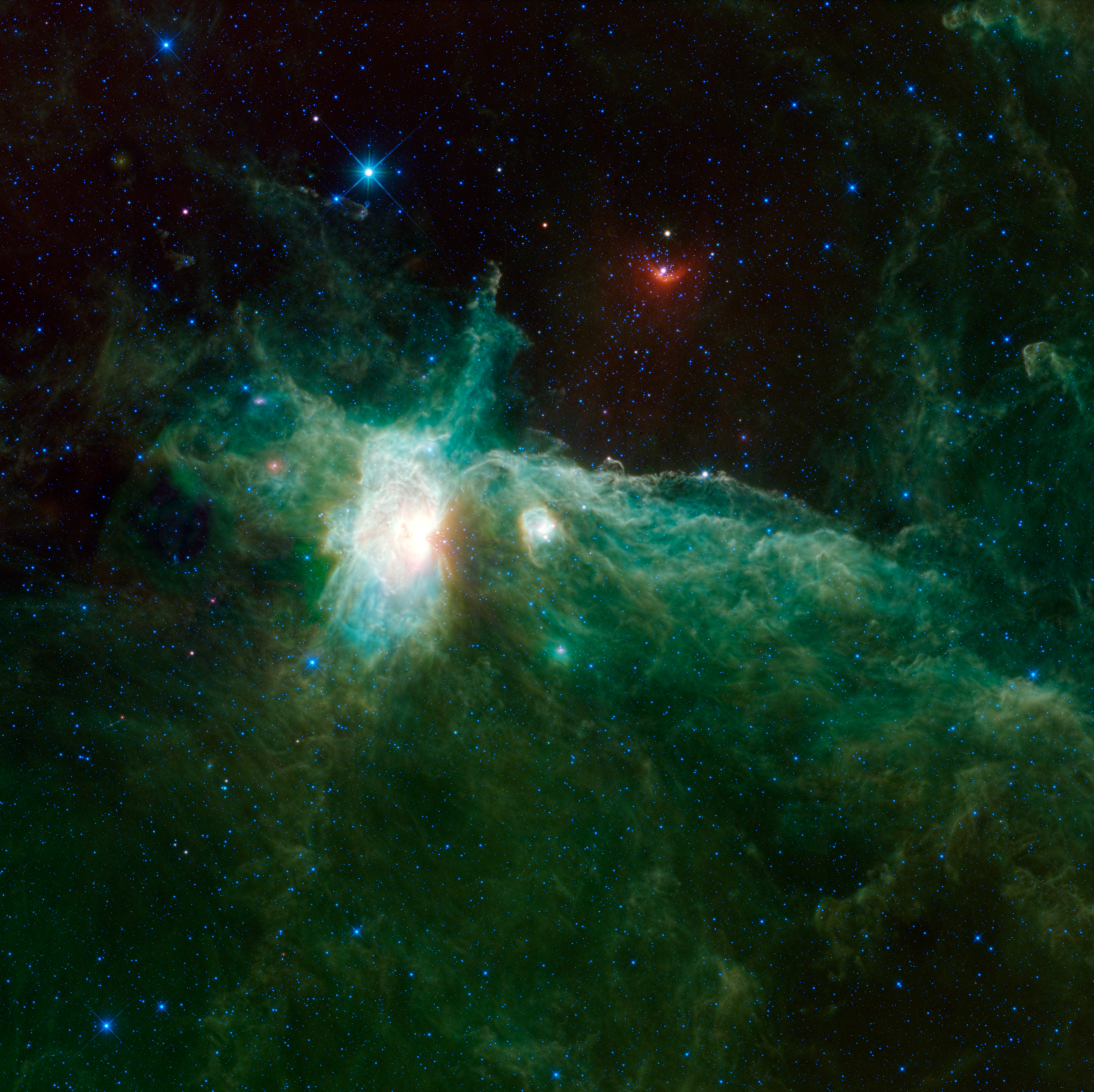 Horsehead nebula, dark clod captured by WISE ind mid and far infrared